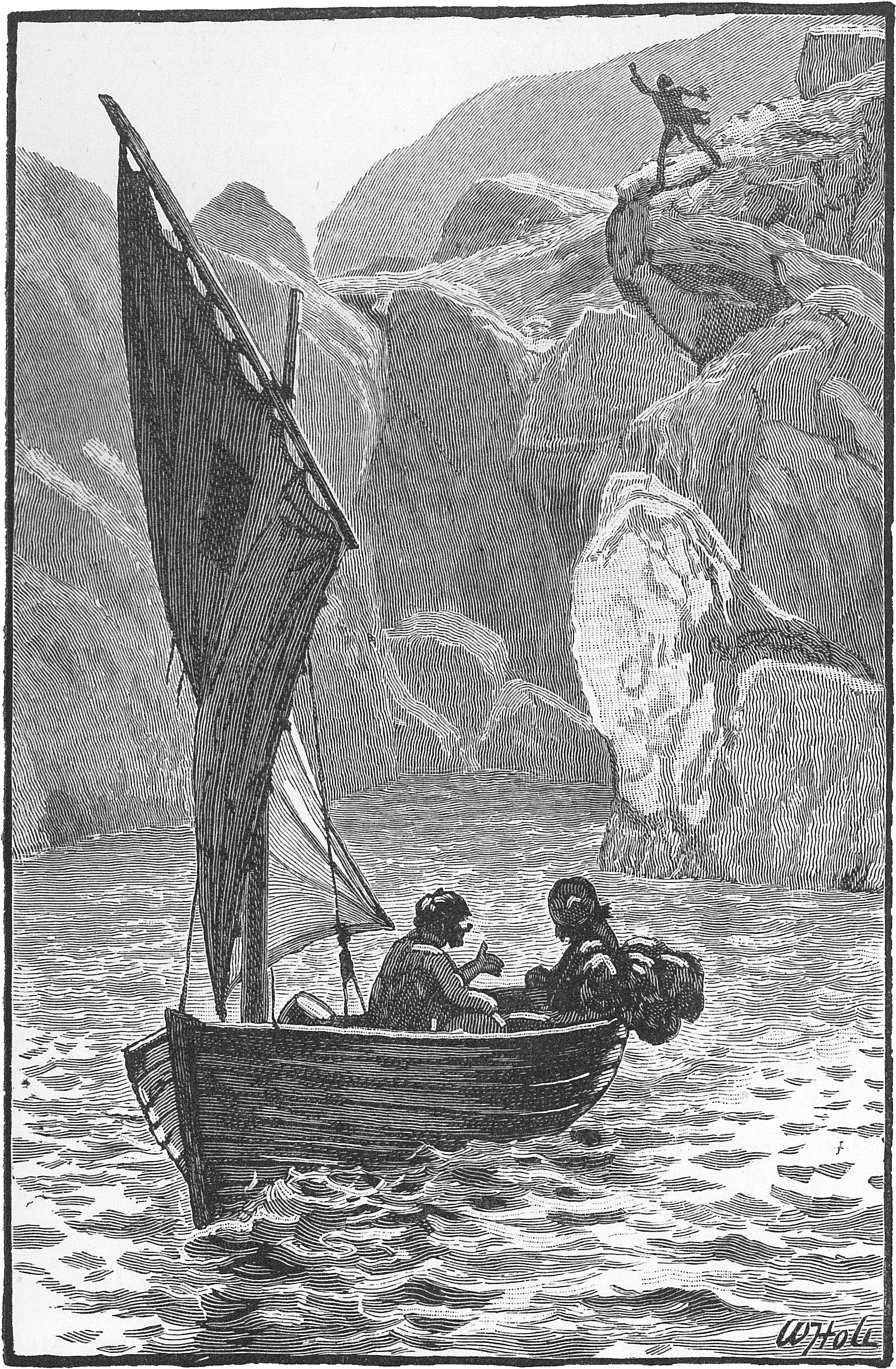 "I cried and waved to them" (chapter XIV, « The Islet »)